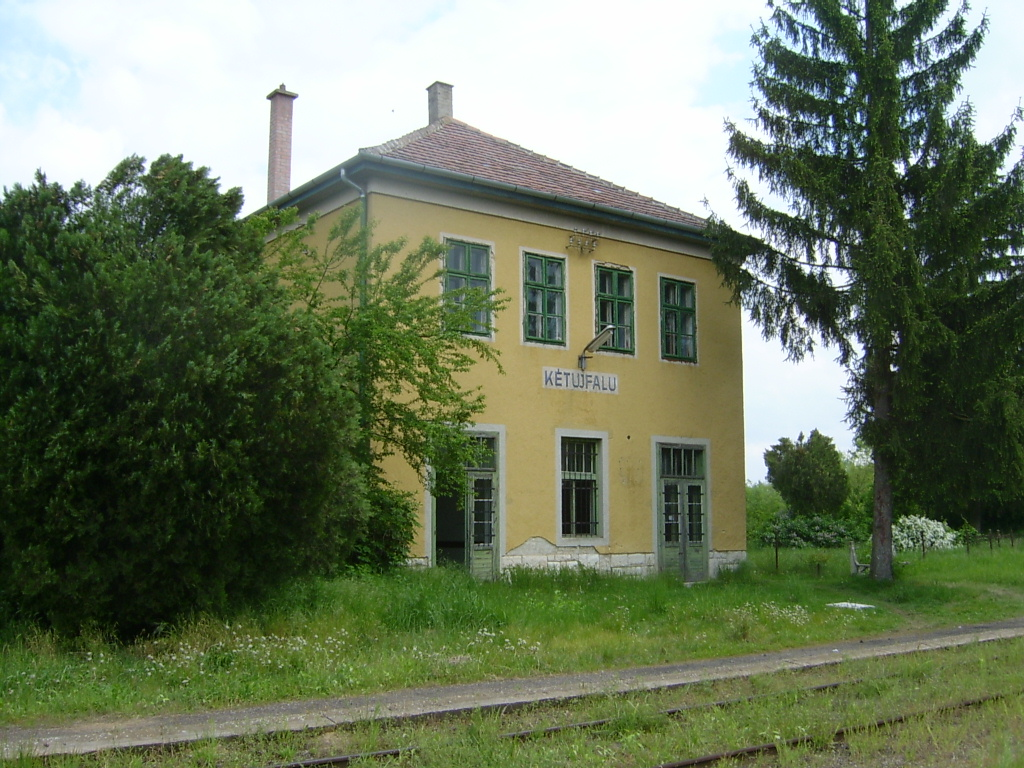 Railway station of Kétújfalu int the Sellye–Középrigóc line, Baranya county, Hungary